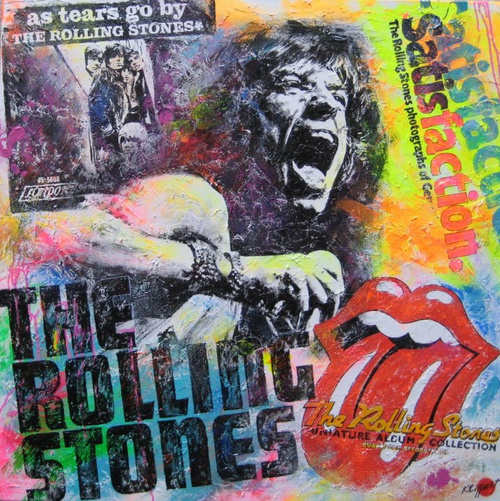 Mick Jagger